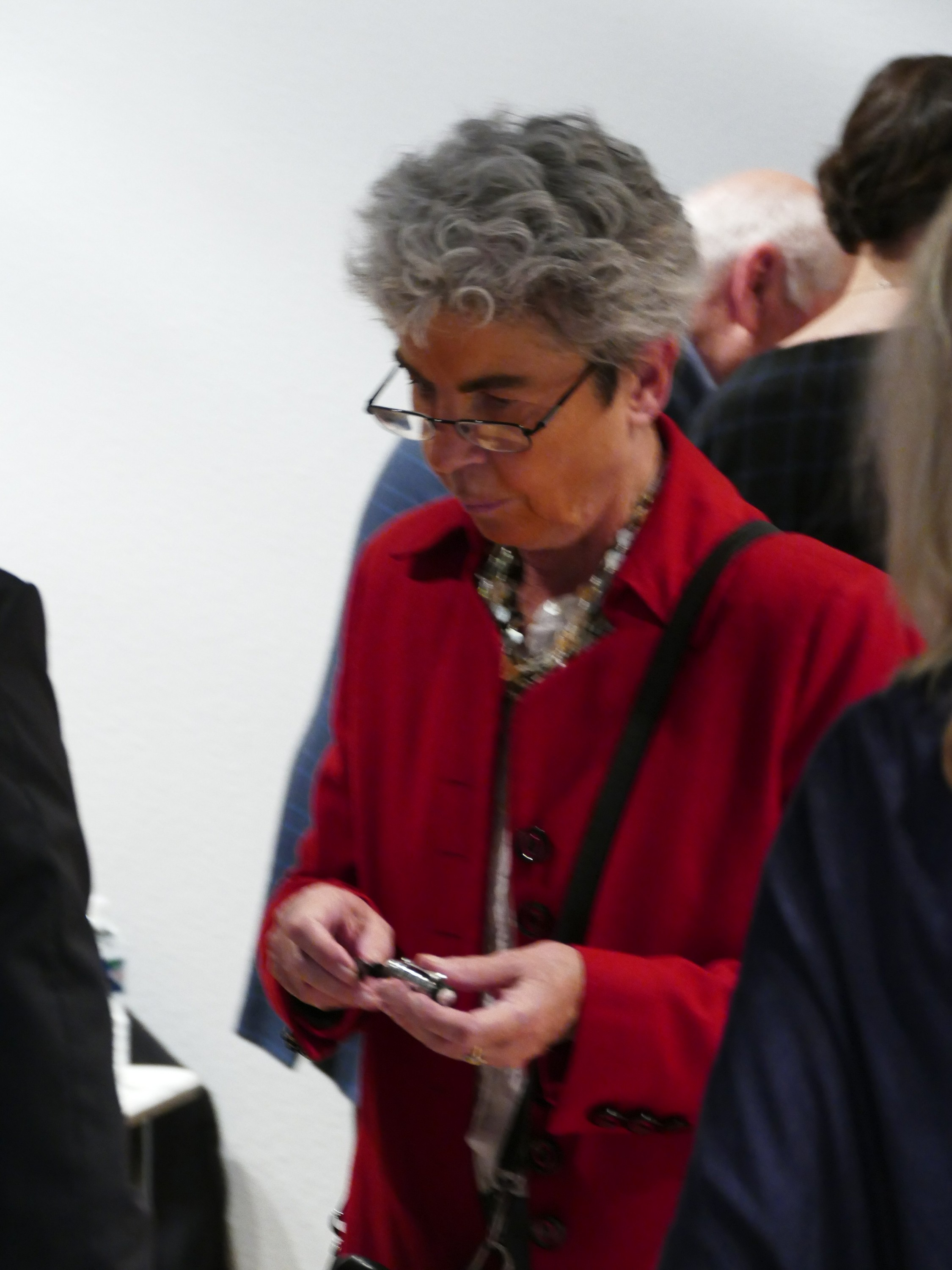 Chantal Delsol at Salon du livre et de la famille in Paris (Île-de-France, France).